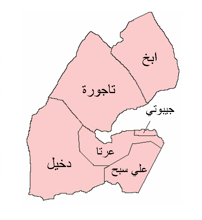 Map of the Regions of Djibouti; created with the GIMP. Made by User:Acntx.